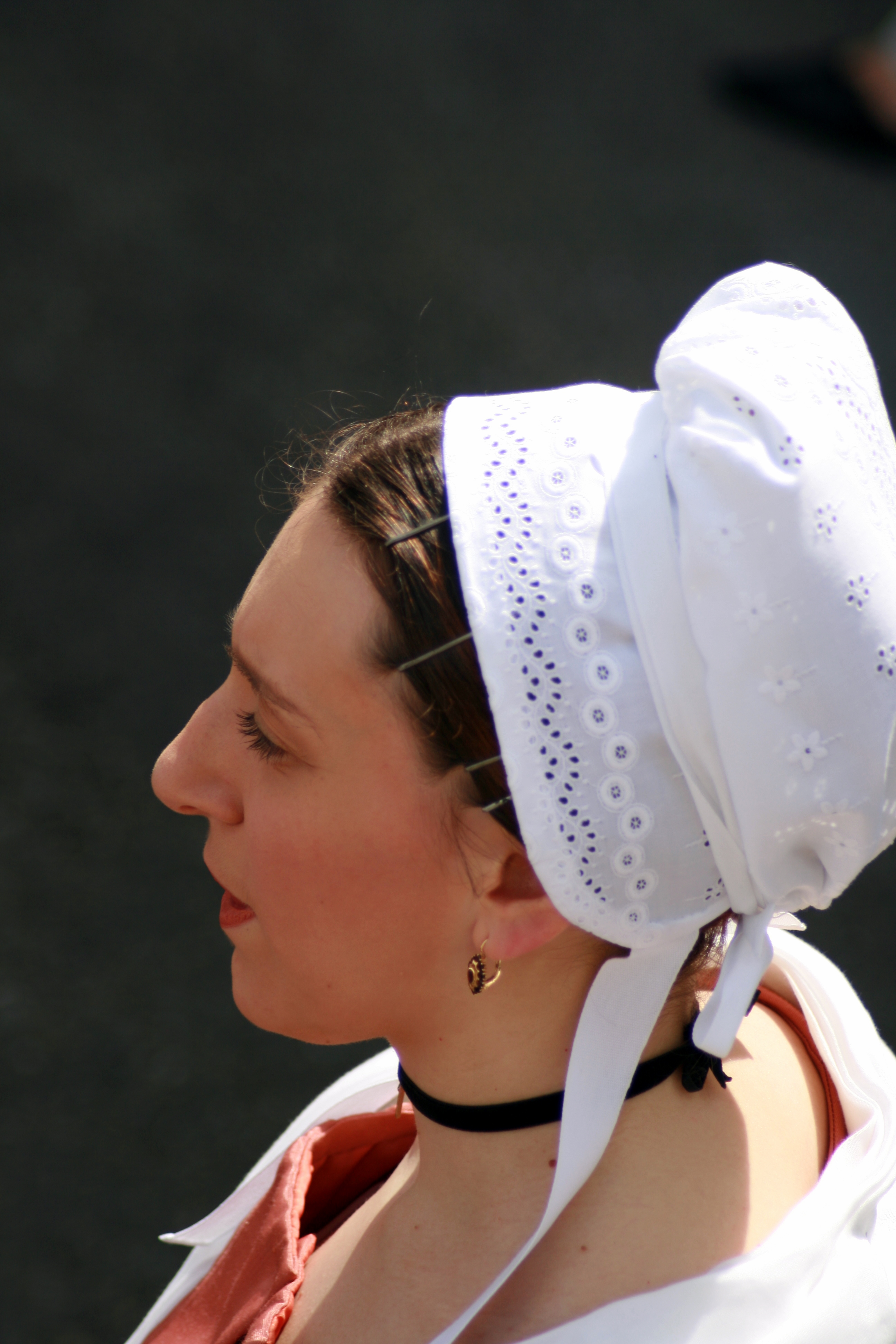 Provence womans'hair